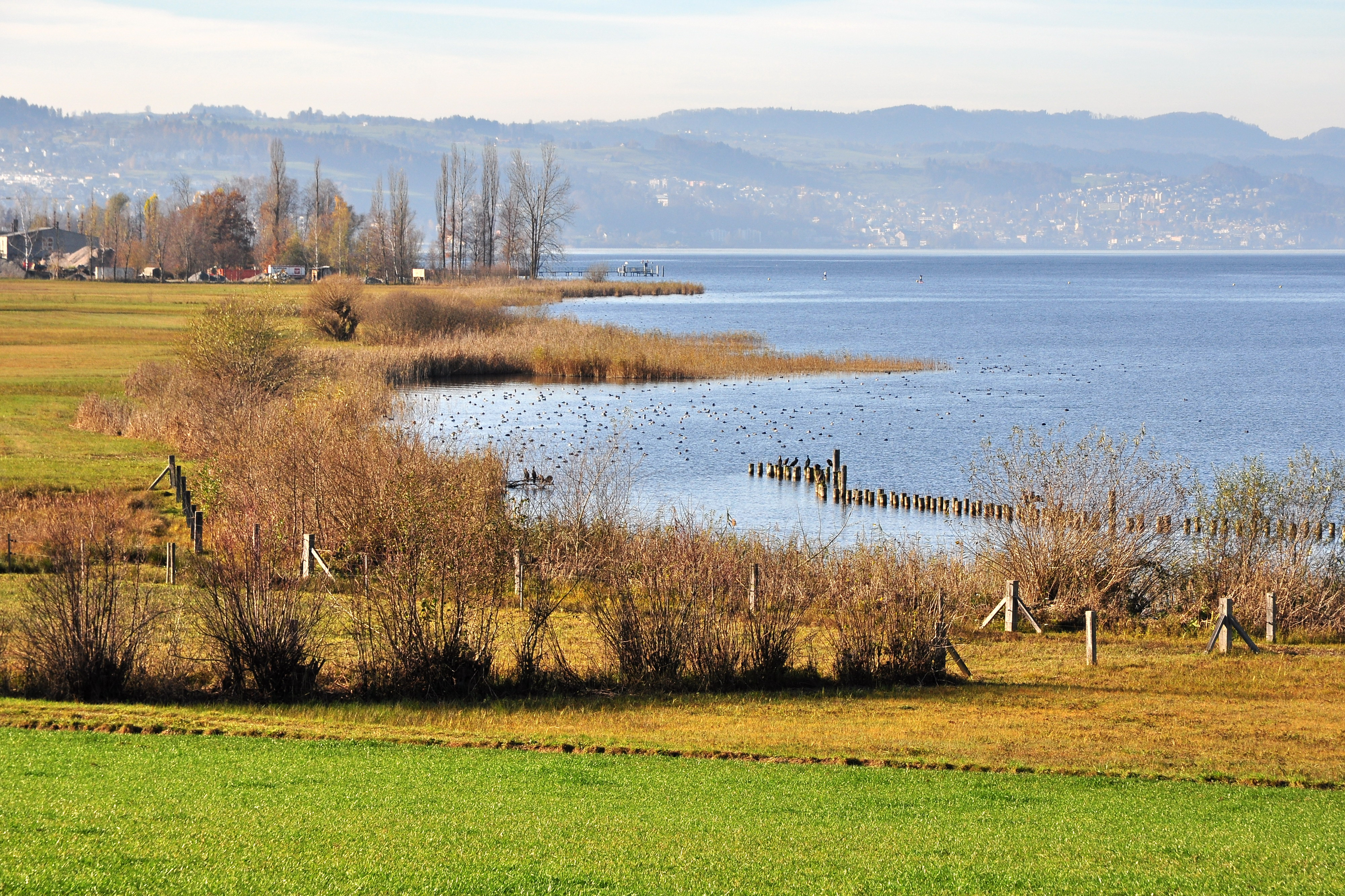 Frauenwinkel protected area on Zürichsee (Switzerland), Zimmerberg in the background.